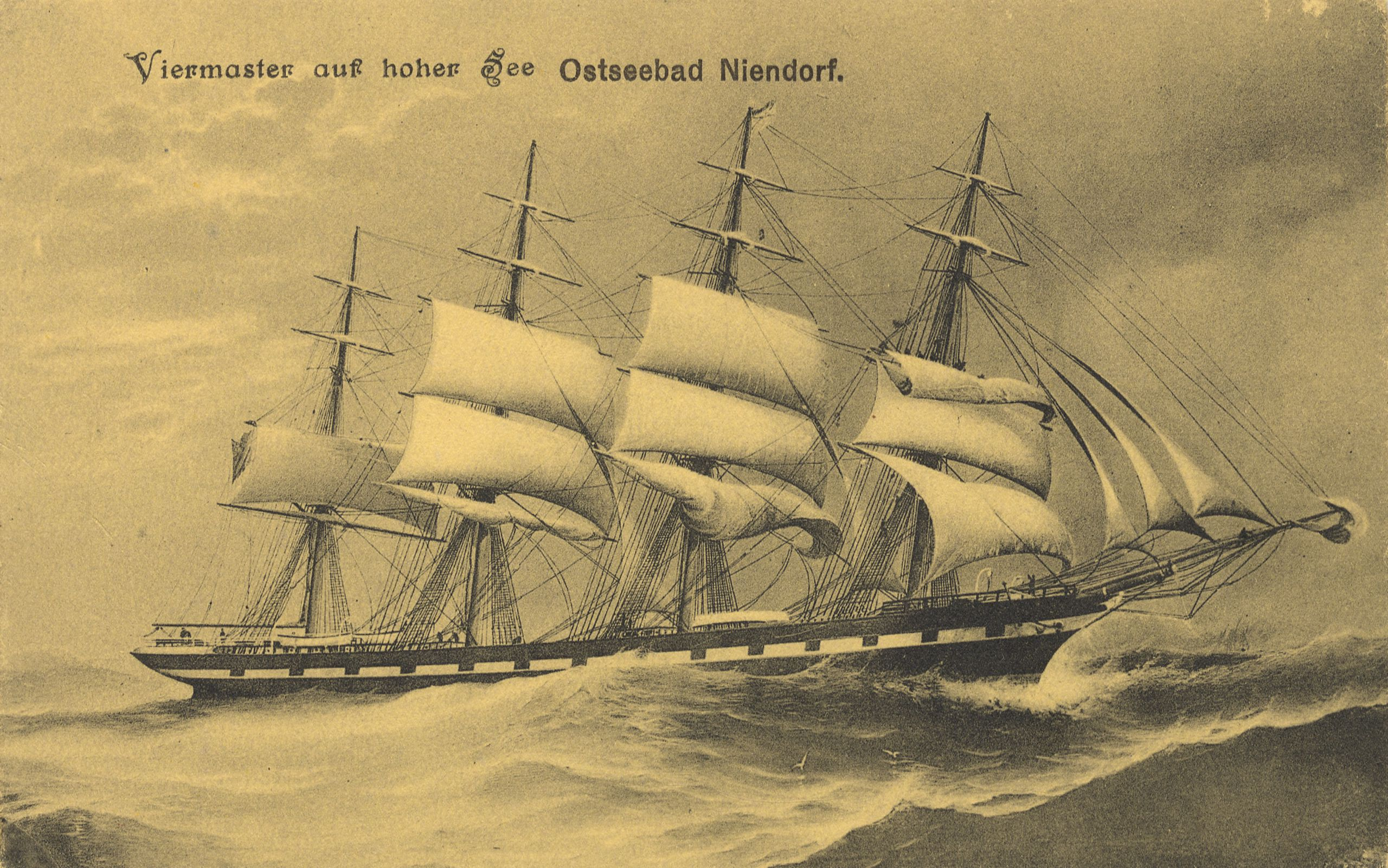 A four-masted, full-rigged ship, maybee a British ship of the line of R. & J. Craig of Glasgow.